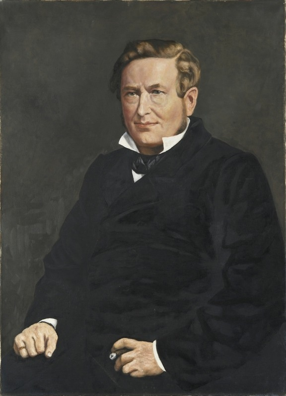 Painting after a photograph.